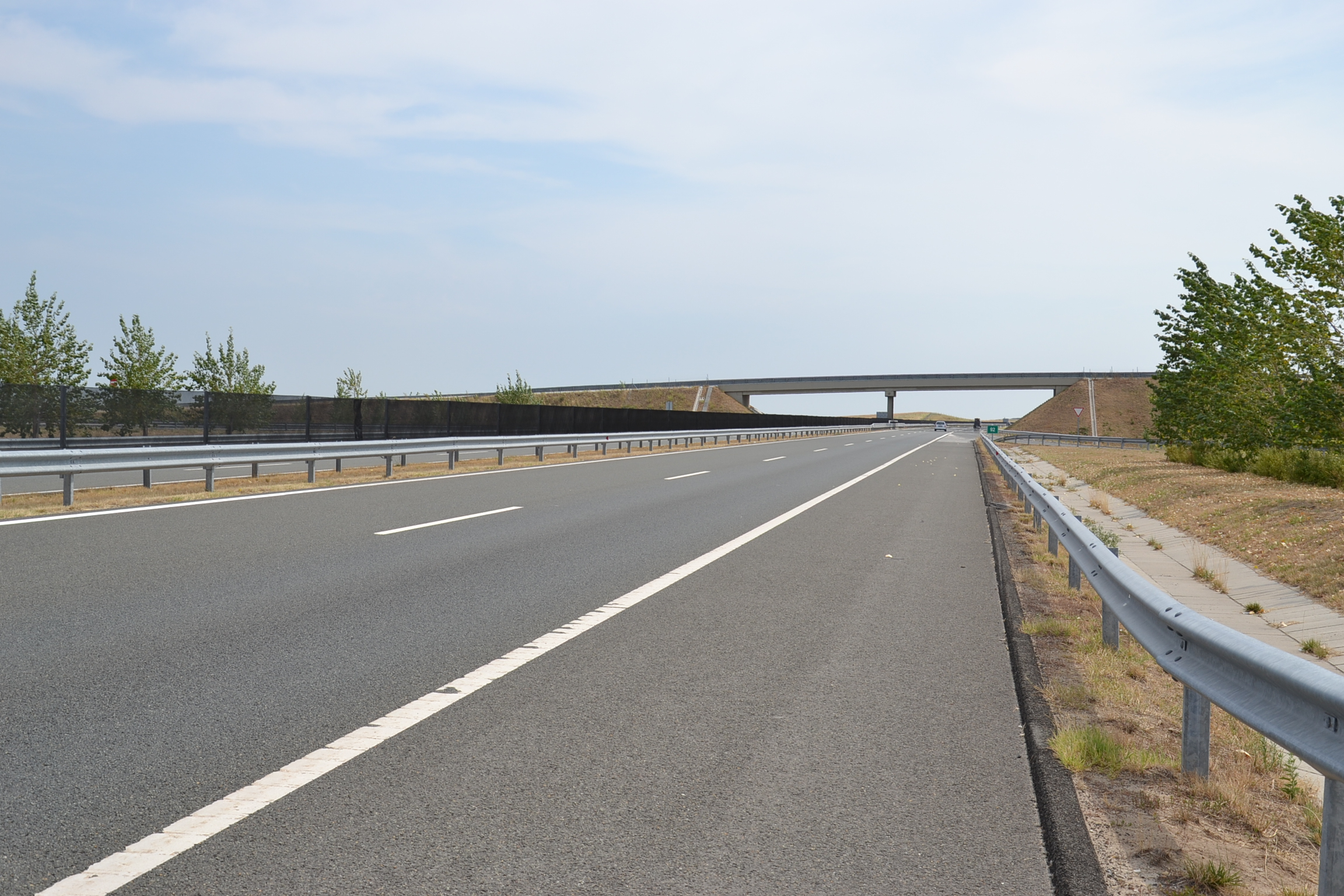 Motorway M6, Hungary